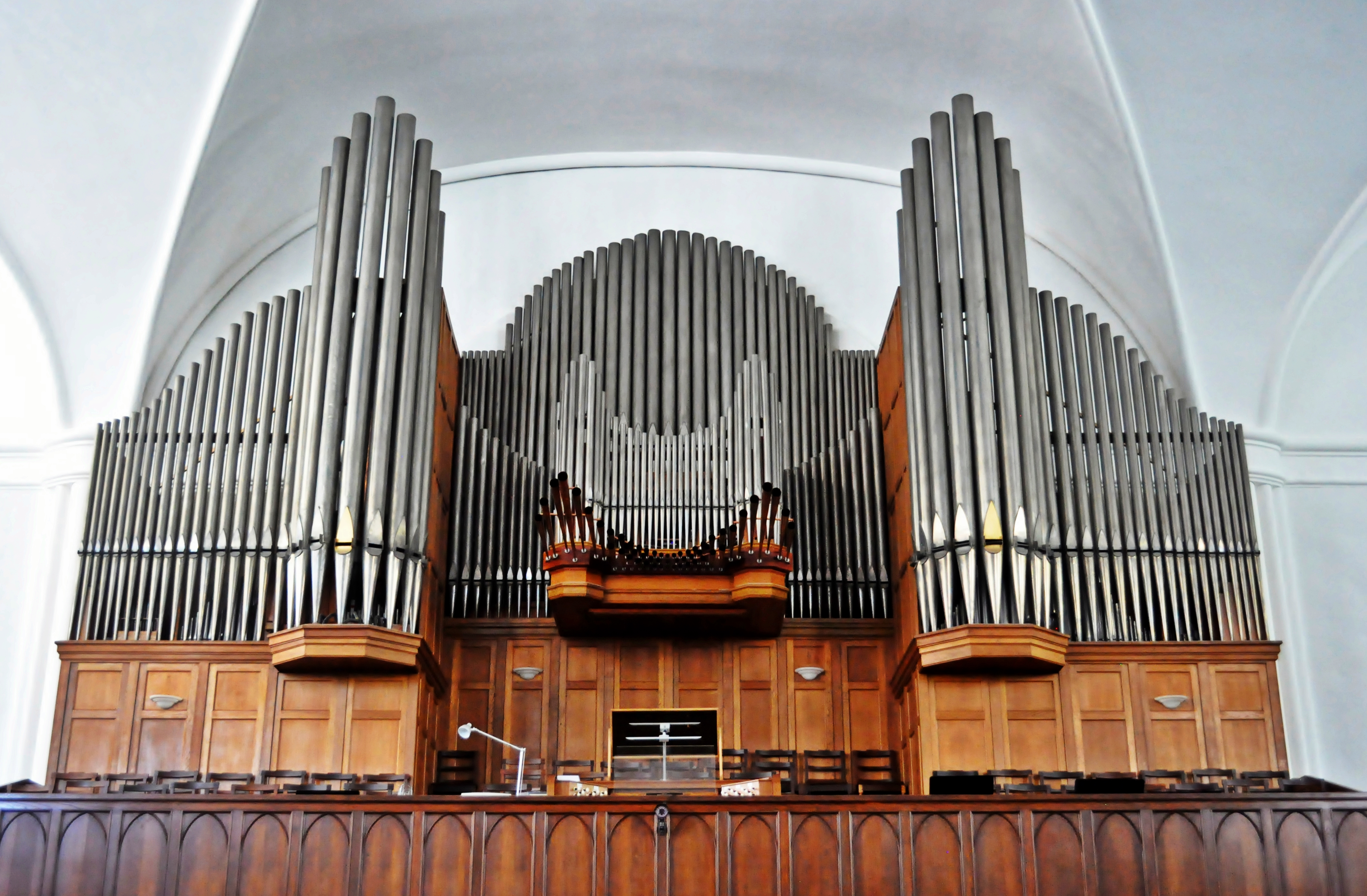 This media shows a South African Protected Site with SAHRA file reference 9-2-018-0106.